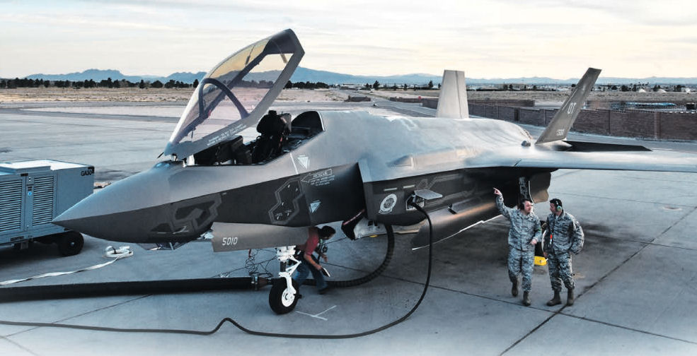 F-35 Lighting II underoing Operational Testing at Nellis AFB, Nevada